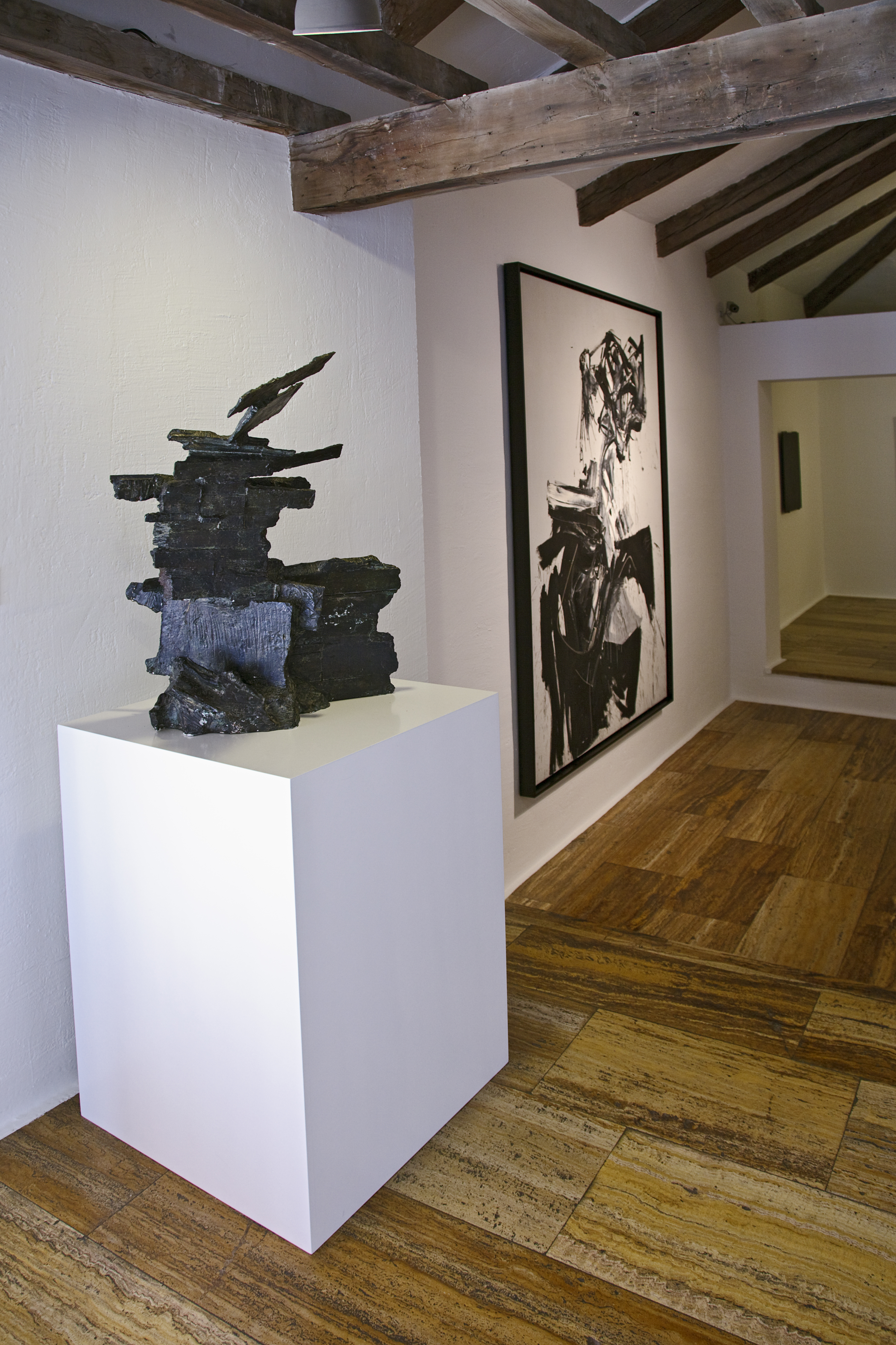 Cuenca. Museum of Spanish Abstract Art. Castilla - La Mancha. Spain